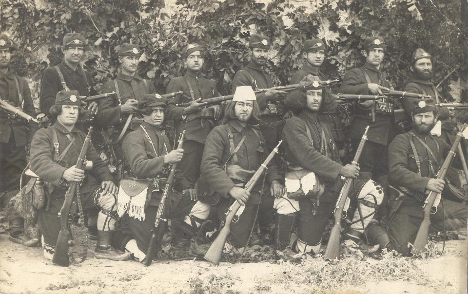 Cheta of Pando Strumishki, IMRO activists